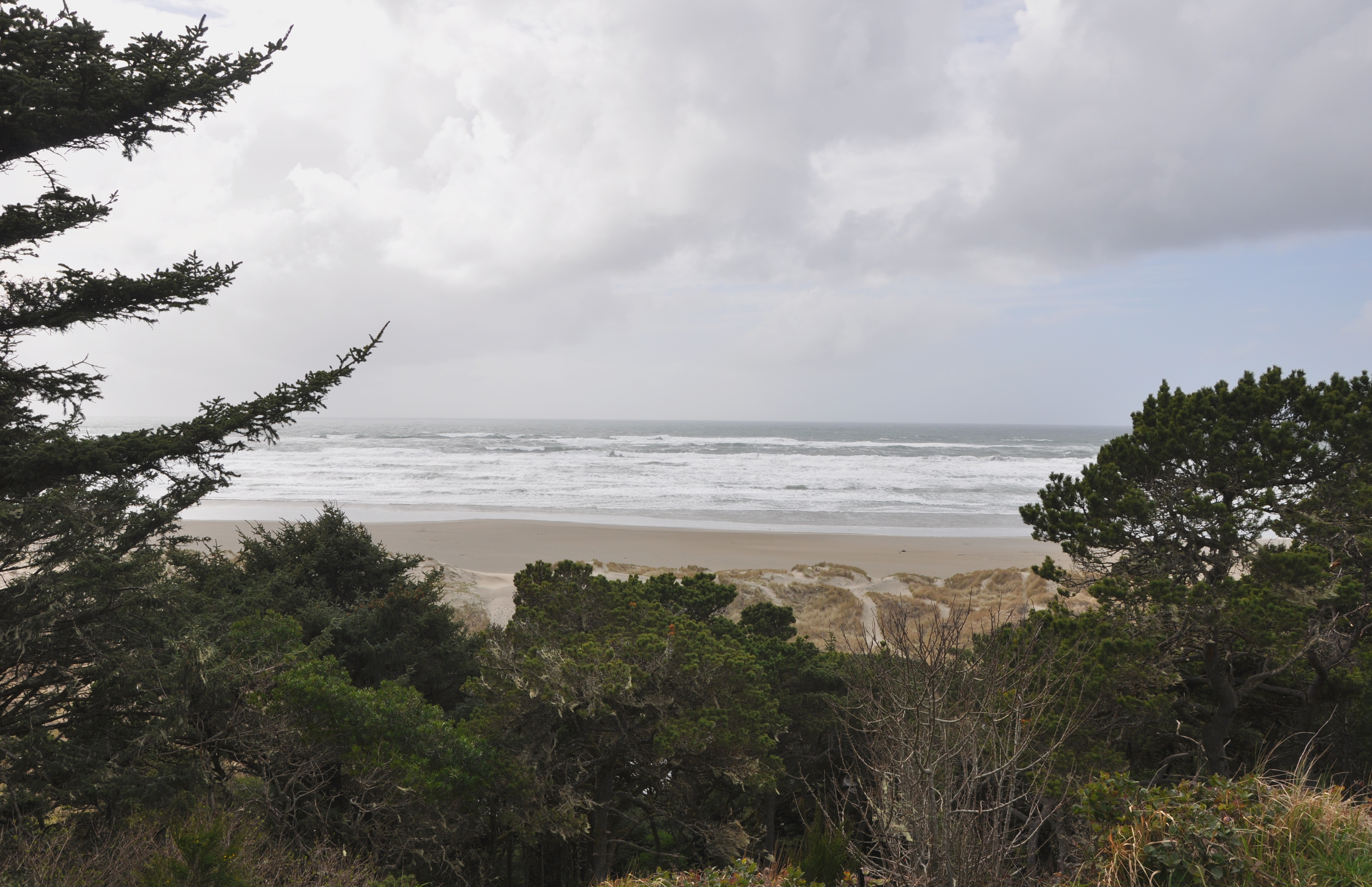 Looking west over the Pacific Ocean from Yaquina Bay State Recreation Site in Newport in the U.S. state of Oregon